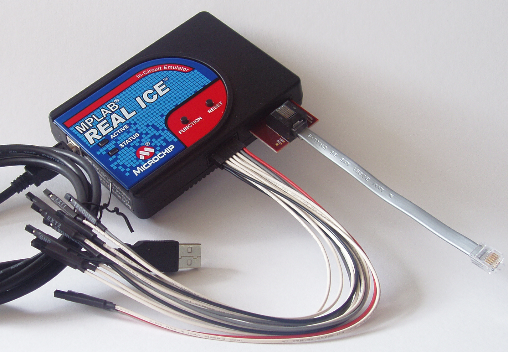 Microchip Real-ICE (DV164005) with ICD2-like debug interface and trace-header (Emulator, Debugger and Programmer as well)